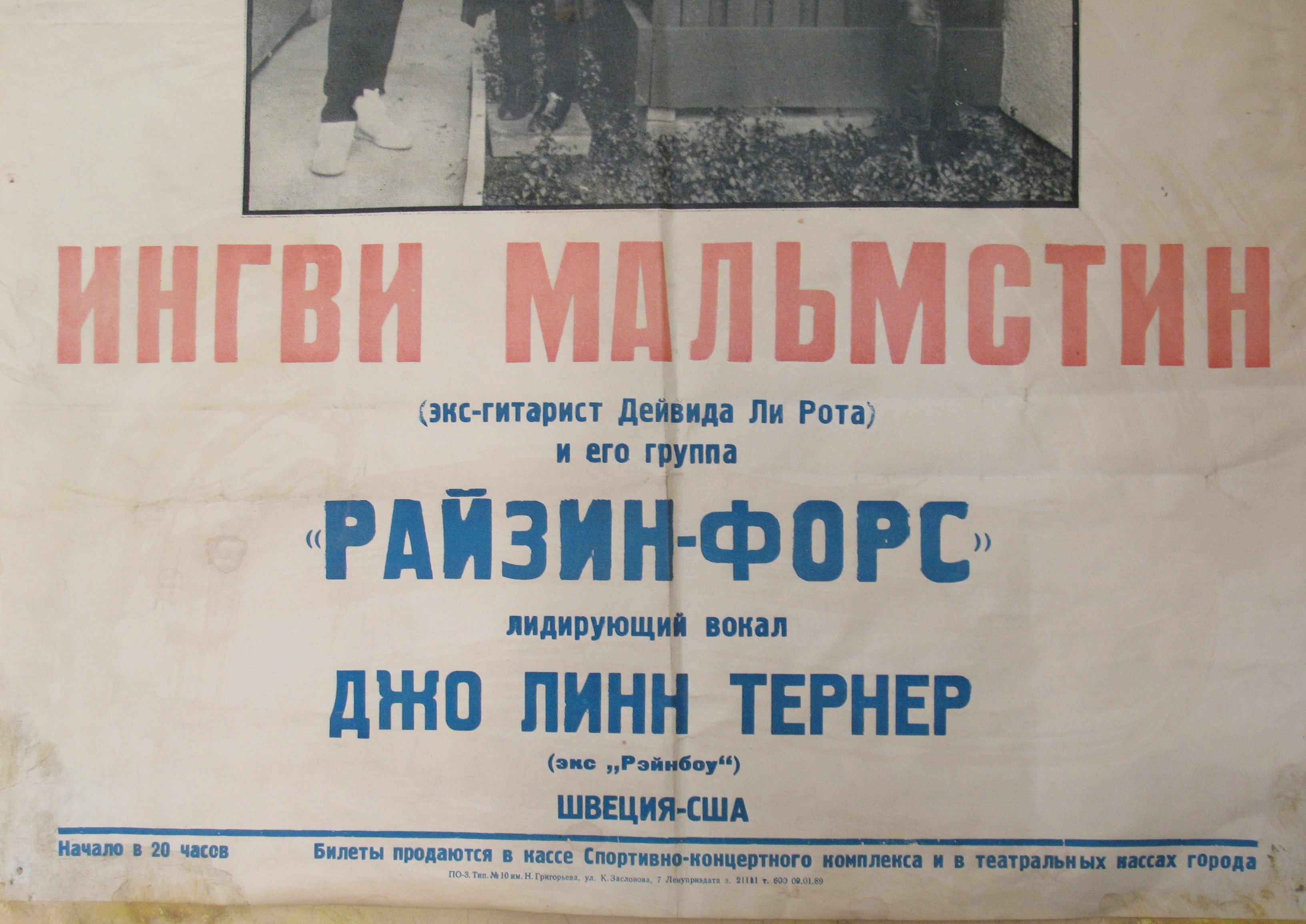 Y. Malmsteen USSR Leningrad Poster 1989.